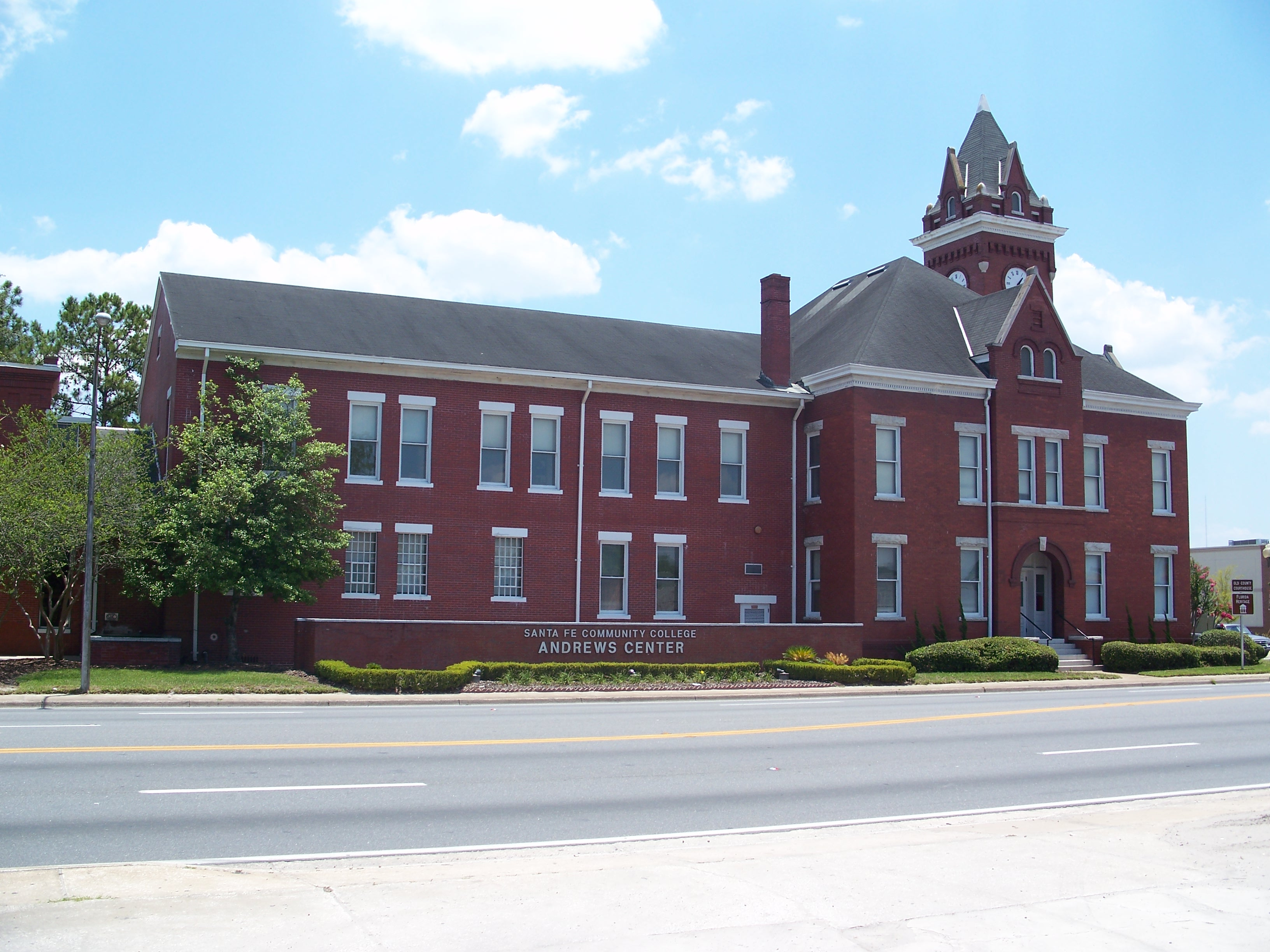 Old Bradford County Courthouse, now part of the Santa Fe Community College Starke Campus, in Starke, Florida